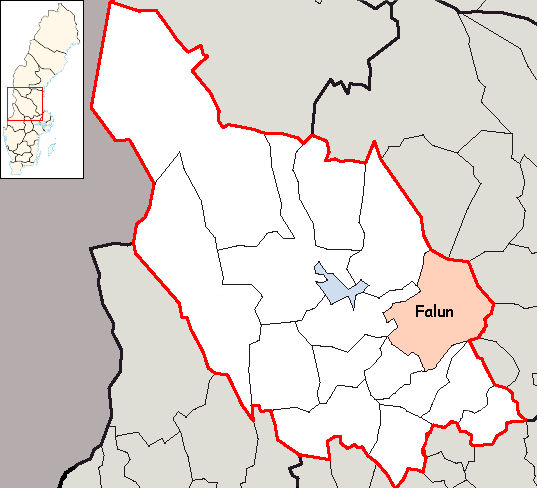 Falun Municipality in Dalarna County Designd by me, based on Image:Dalarna County.png